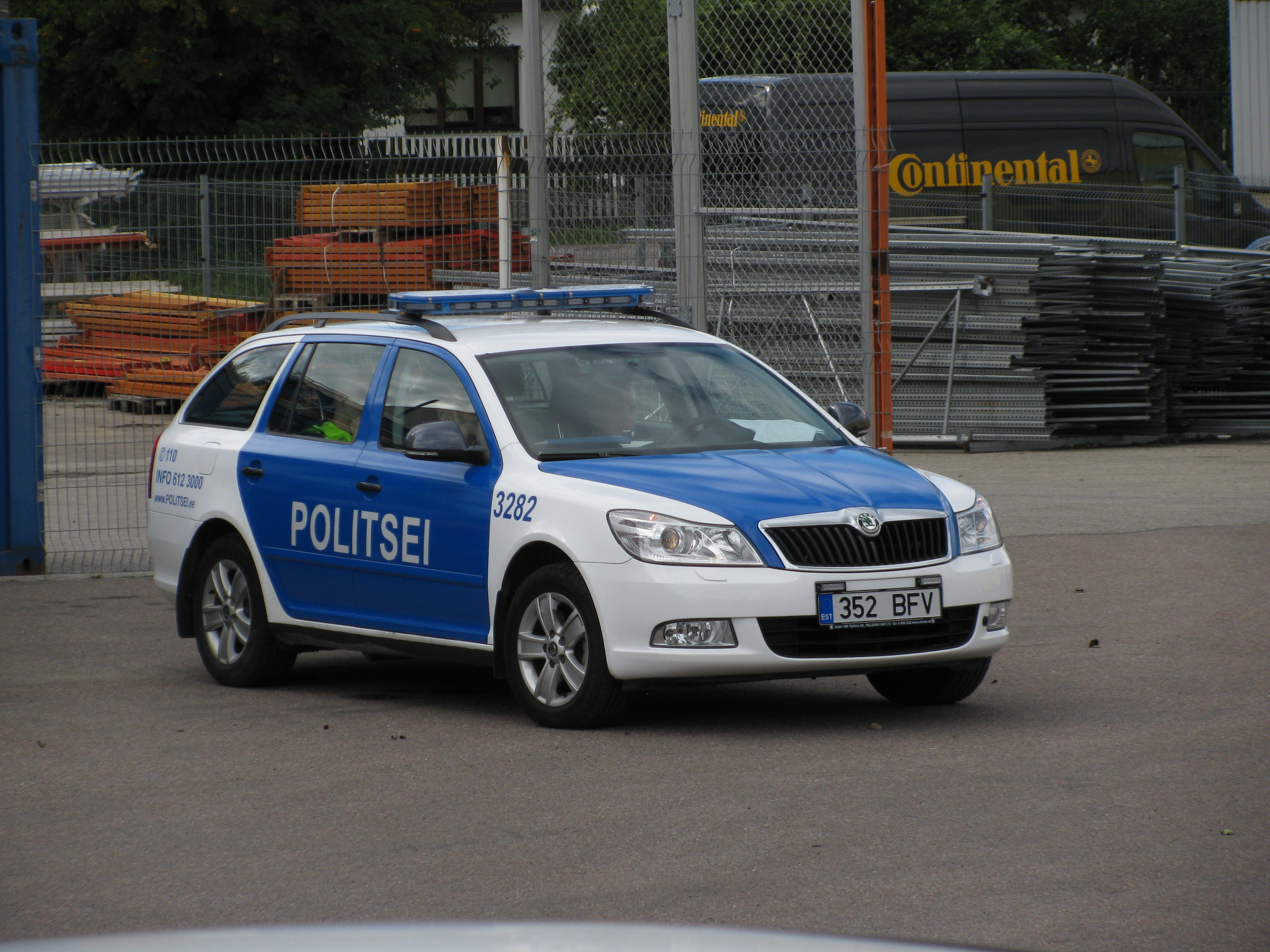 Estonian police vehicle in Tallinn.